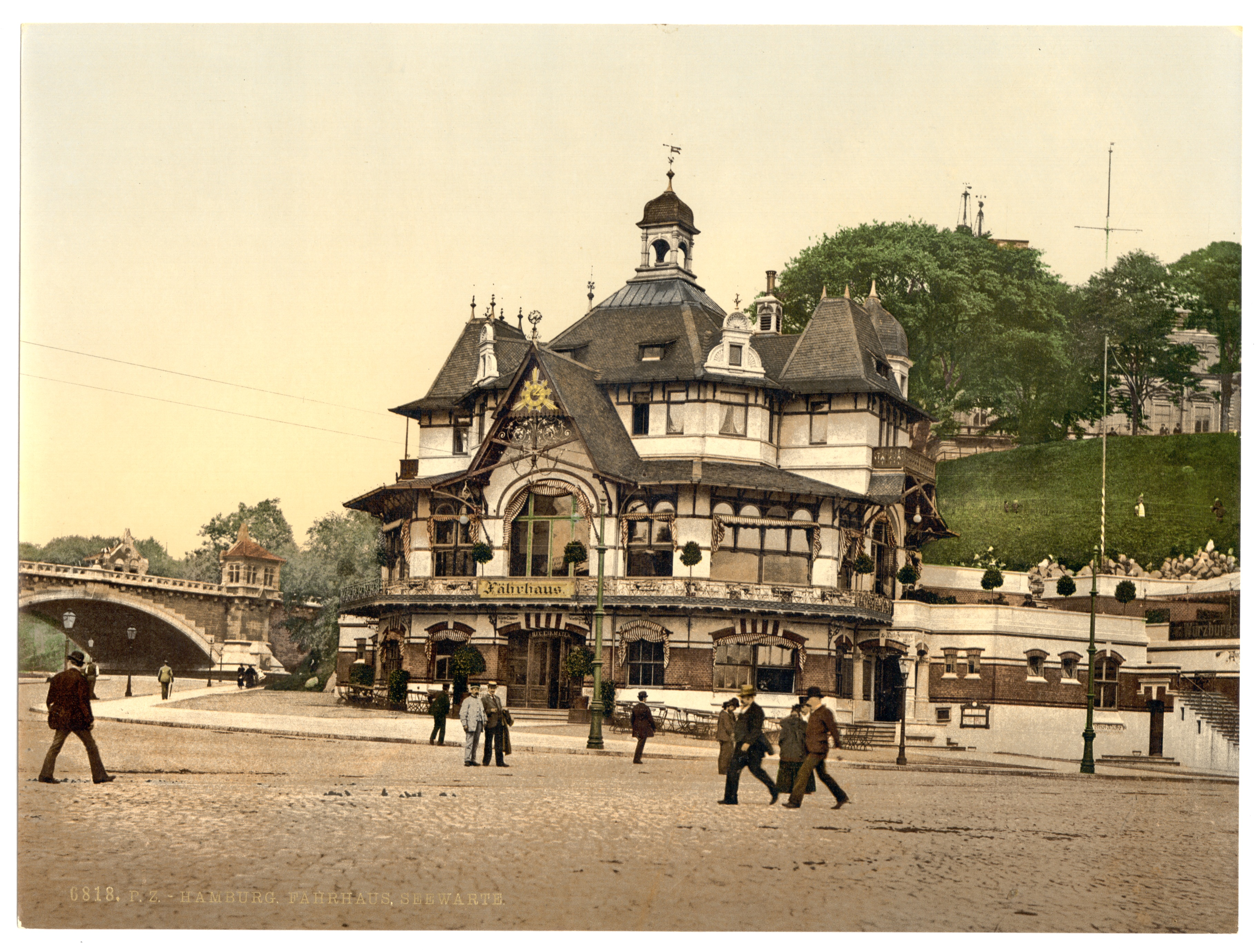 Print no. "6818".; Title from the Detroit Publishing Co., catalogue J-foreign section. Detroit, Mich. : Detroit Photographic Company, 1905..; Forms part of: Views of Germany in the Photochrom print collection.